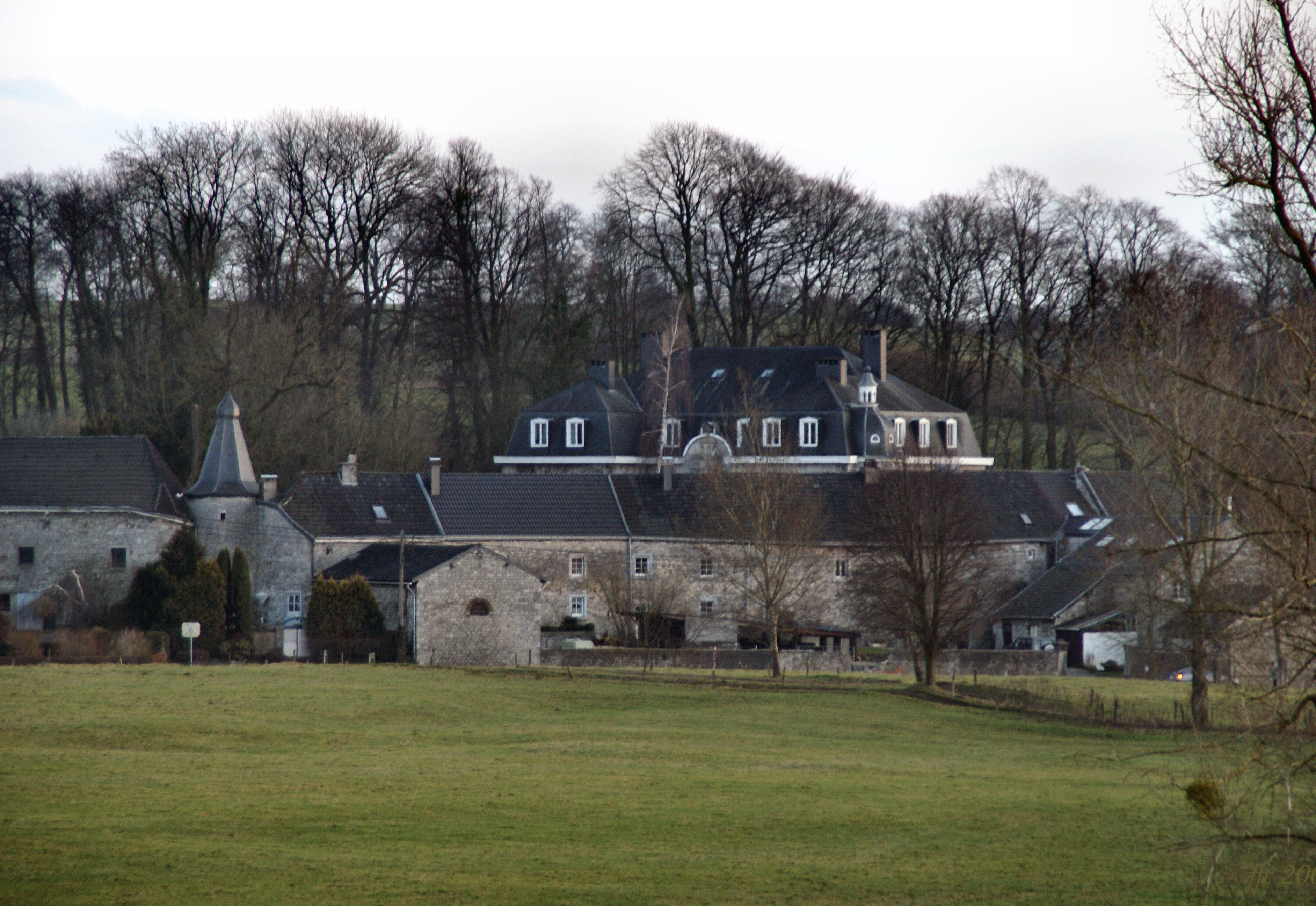 Lontzen (Belgium): Lontzen Hall